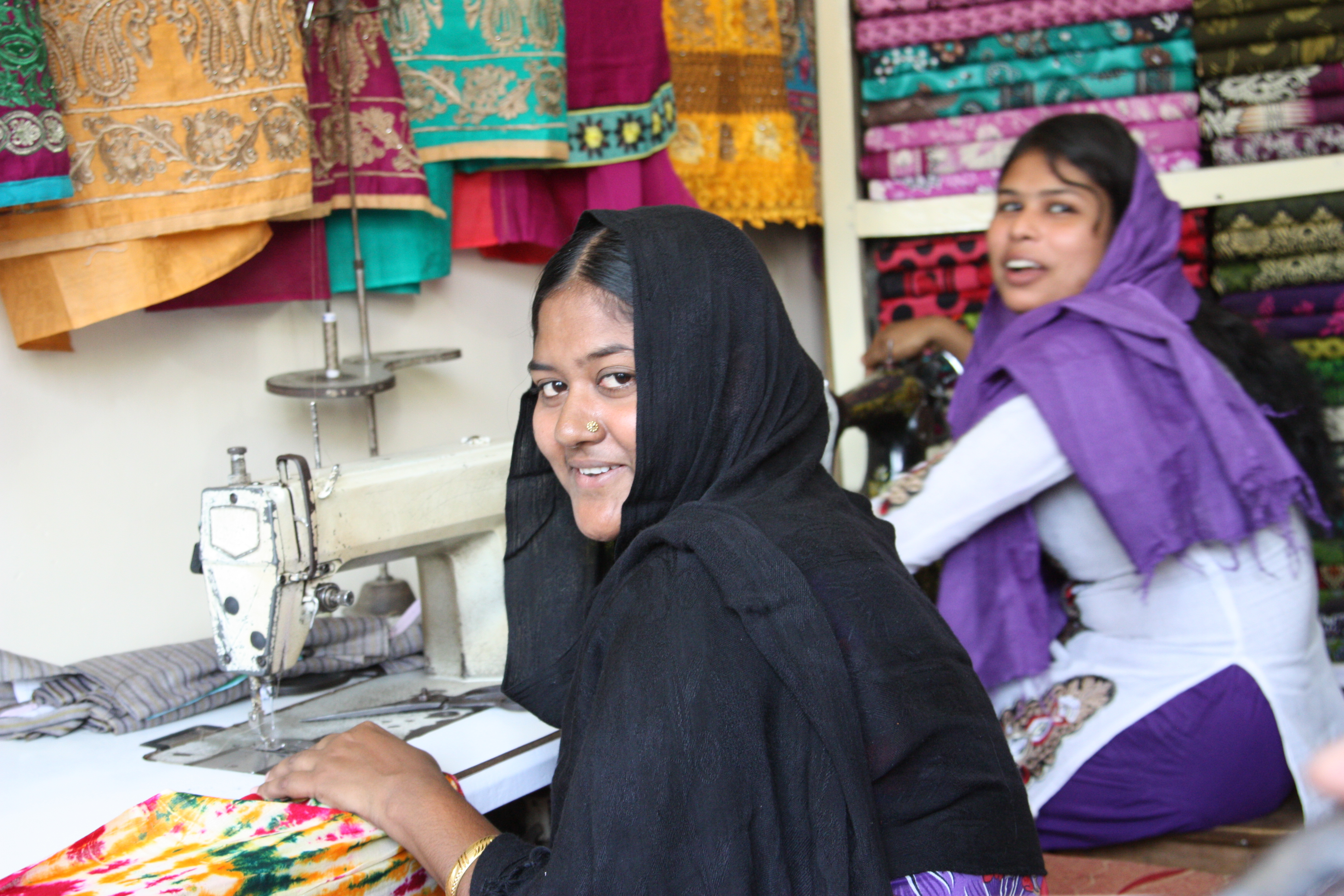 Khaleda was working in the Rana Plaza building when it collapsed on 24 April 2013. “There were 10 to 12 of us trapped under the rubble, we thought that we were going to die," says Khaleda. "We were saying goodbye to each other. I was rescued from the collapse after being buried for 16 hours." Khaleda was treated for her injuries and later on received rehabilitation support from the UK aid funded Centre for the Rehabilitation of the Paralysed (CRP). She was also able attend a 3-month vocational skills training by the UK funded ILO programme and now works as a dress maker. “I want to open my own tailoring shop in the future; ultimately I would like to become self-employed. After the training, my confidence has increased and I have enough courage and experience to manage a shop.” For more details of the UK’s work on improving safety and working conditions in the ready made garment sector in Bangladesh read our news story: Picture: Narayan Debnath/DFID